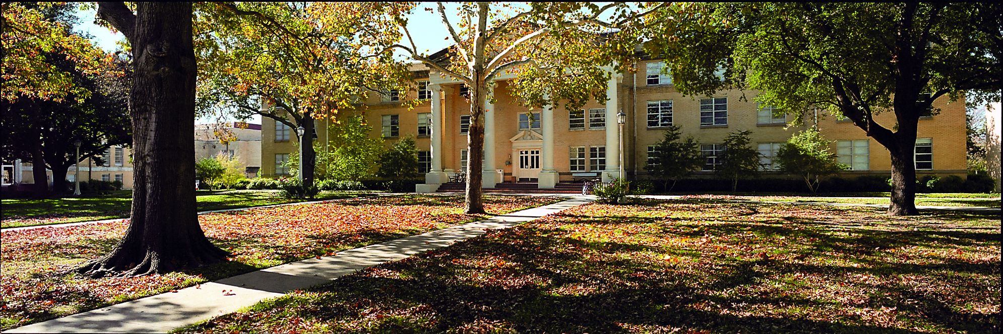 Panoramic view of TCU's Jarvis Hall.